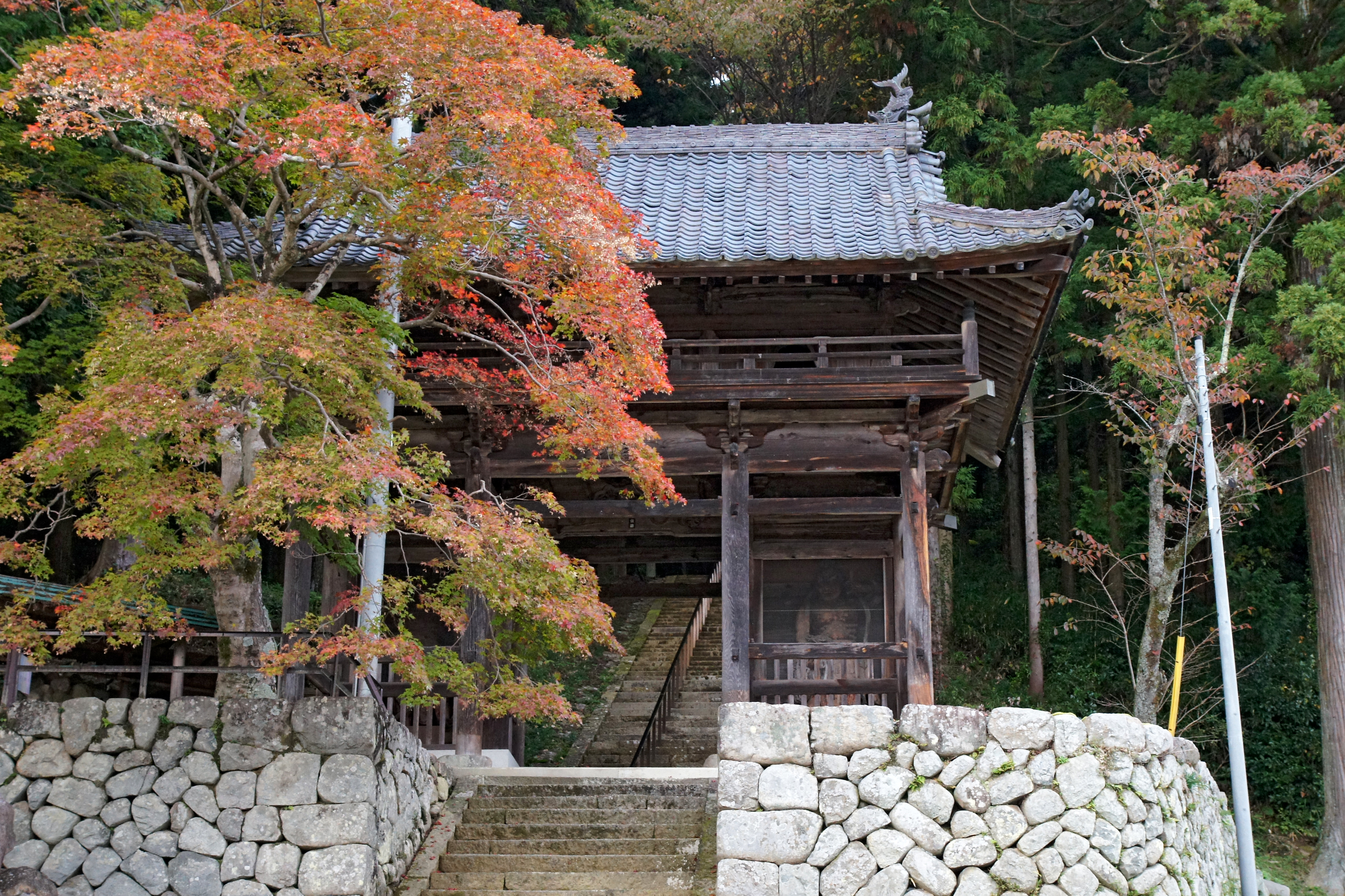 Horaku-ji in Kamikawa, Hyogo prefecture, Japan